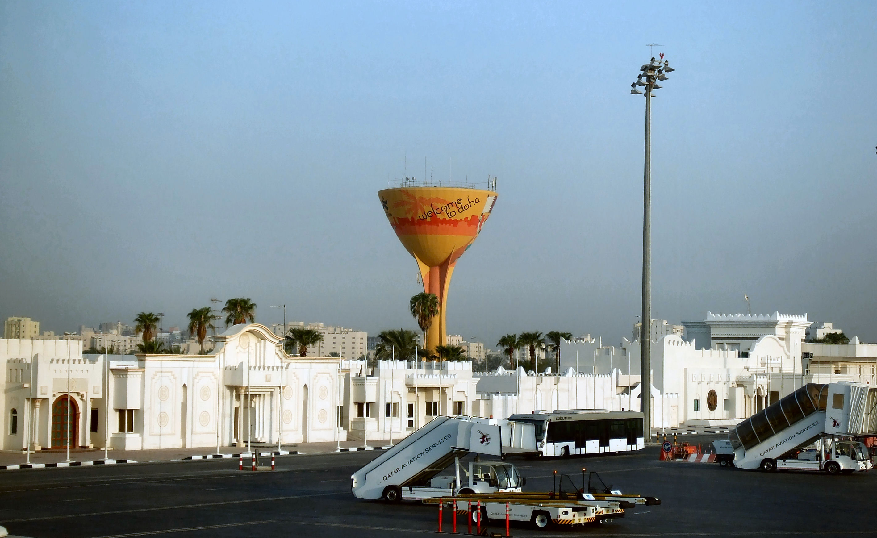 Doha International Ariport , QATAR